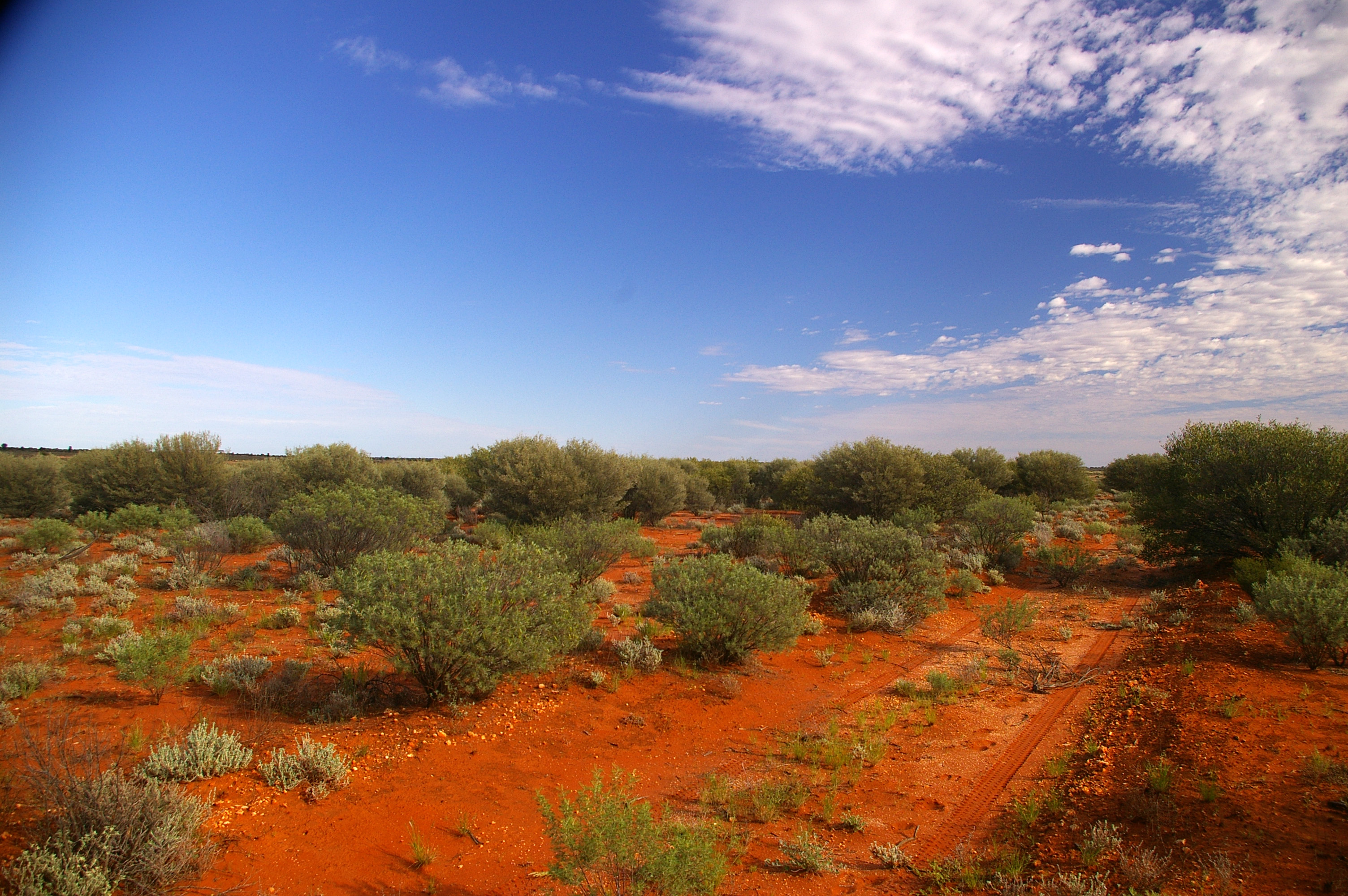 Landscape at former British nuclear test site, Maralinga, South Australia. Maralinga, South Australia, is the former British nuclear test site. I worked at the site during the Maralinga Rehabilitation Project where contaminated radioactive material was cleaned up.